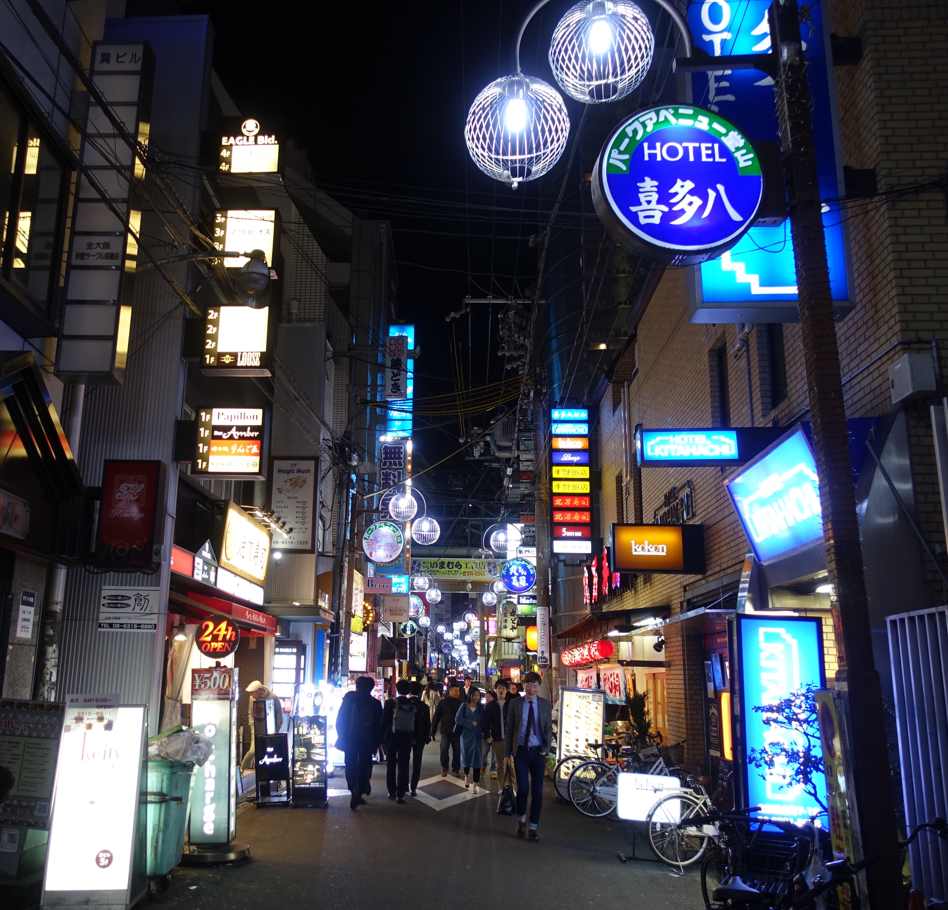 View of Dōyama district in Osaka. The view is facing east.